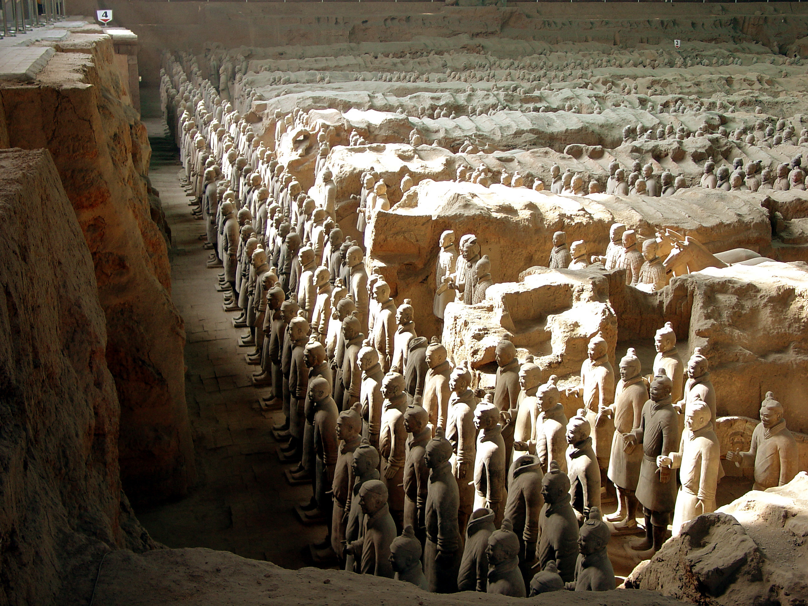 Terra-Cotta Warriors. Pit 1, Lishan Necropolis, Xi'an The army faces east, looking ready to march at the emperor's command.